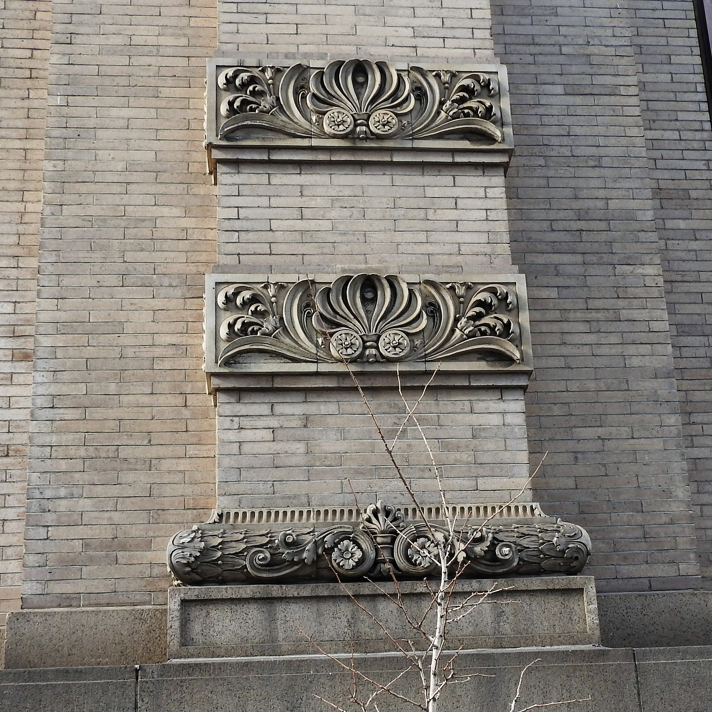 Looking west from 11th Avenue at flowery detail